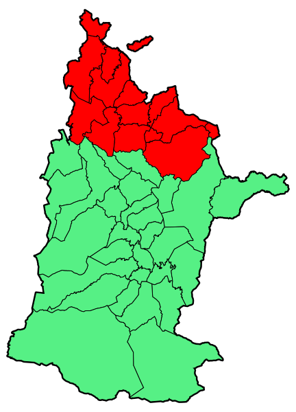 Map of Pettarra in Zuberoa according to Euskaltzaindia